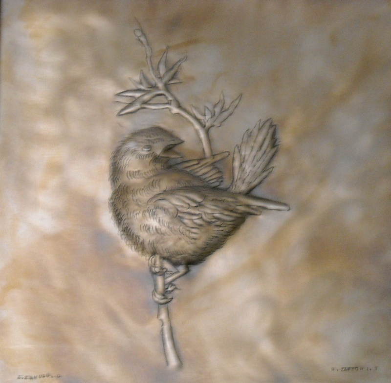 Engraving made by Renzo Zattoni, italian artist.